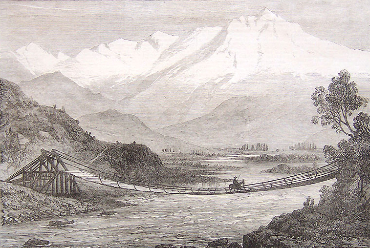 The Illustrated London News (ILN) 'Valley of the Aconcagua, Chili'. Published London 16 April 1870. Contemporary detailed and pretty illustration of the rope bridge being crossed by a solitary peasant on donkey back across the river that irrigates the whole of the Valley. The name was given to the area (and the river) by the early Inca settler